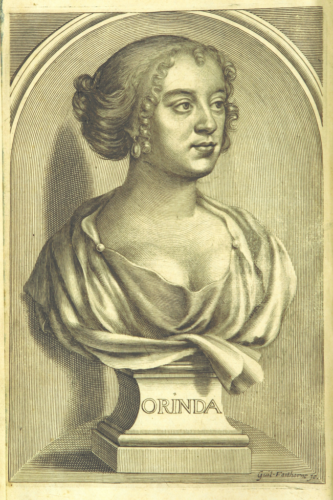 Page 0008 of Poems ..., to which is added ... Corneille's Pompey and Horace, tragedies.